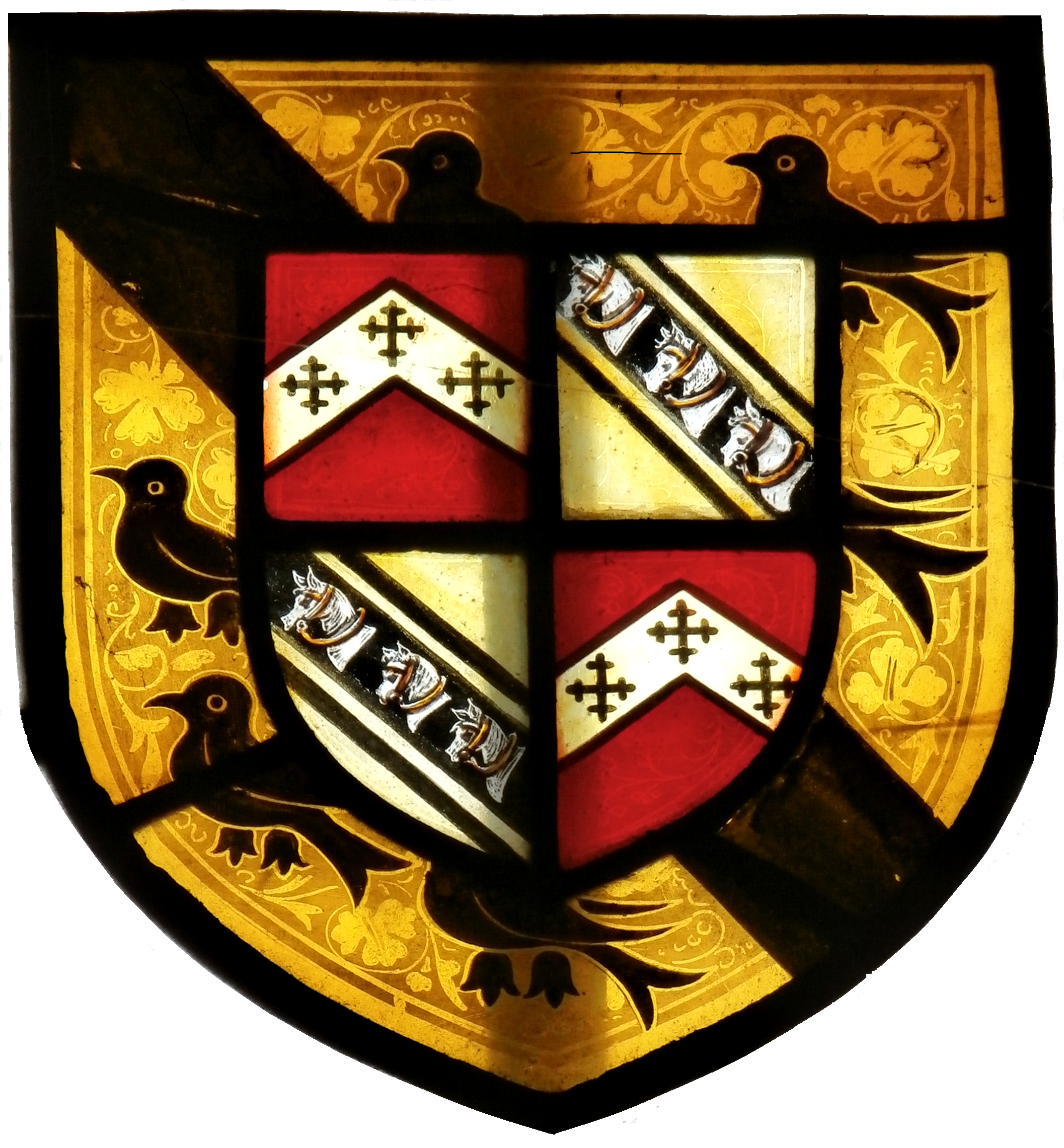 19th century stained glass in Dunster Church, Somerset, showing arms of Thomas Luttrell (died 1571), of Dunster Castle, feudal baron of Dunster, husband of Margaret Hadley, daughter and eventual sole heiress of Christopher Hadley (1517-1540), lord of the manor of Withycombe Hadley in Somerset. Or, a bend between six martlets sable (Luttrell) with an inescutcheon of pretence of Hadley (Gules, on a chevron or three cross-crosslets sable) quartering Durborough of Withycombe (Or, on a bend cotised sable three horse's heads argent bridled or) (See Maxwell Lyte, Sir Henry (1848-1940), Dunster and its Lords, published in Archaeological Journal, Vol. 38, 1881, p.82[1] and in the later book version: Maxwell-Lyte, Dunster and its Lords, Appendix F, p.67